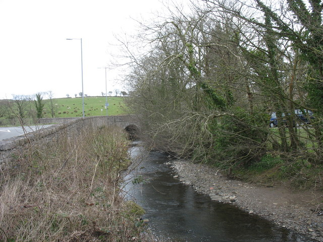 Afon Goch upstream of the A5025 bridge